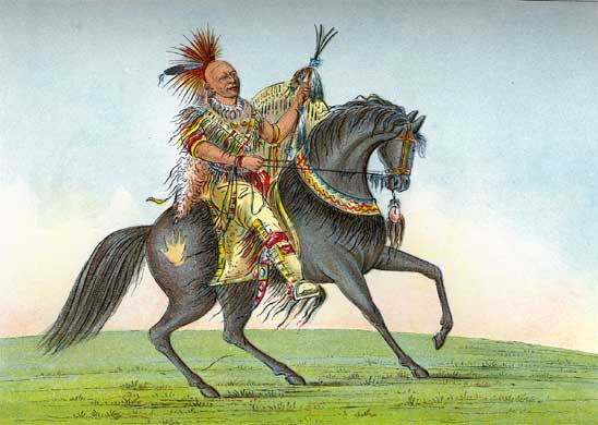 Kee-o-kuk (The Running Fox)